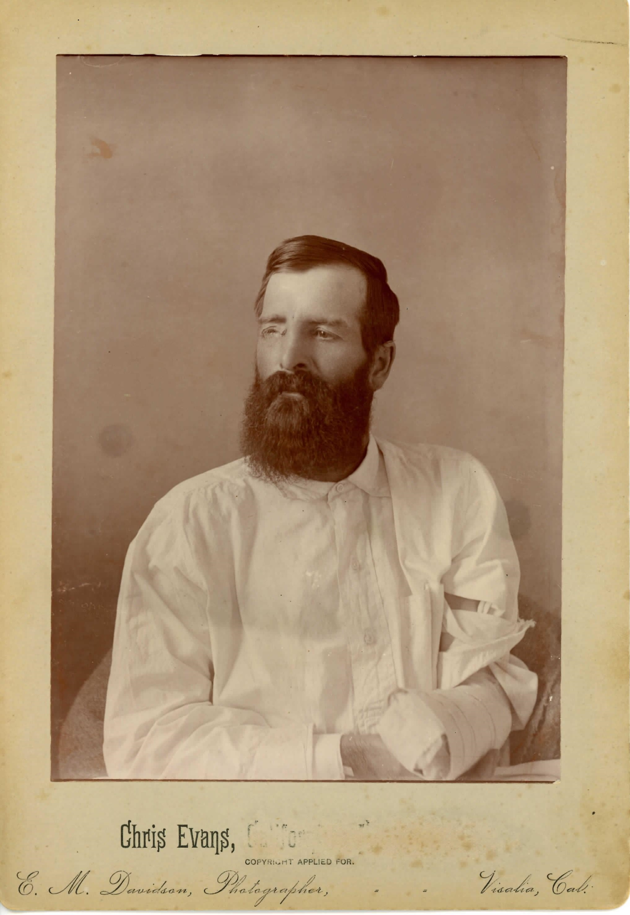 Chris Evan after Stone Corral